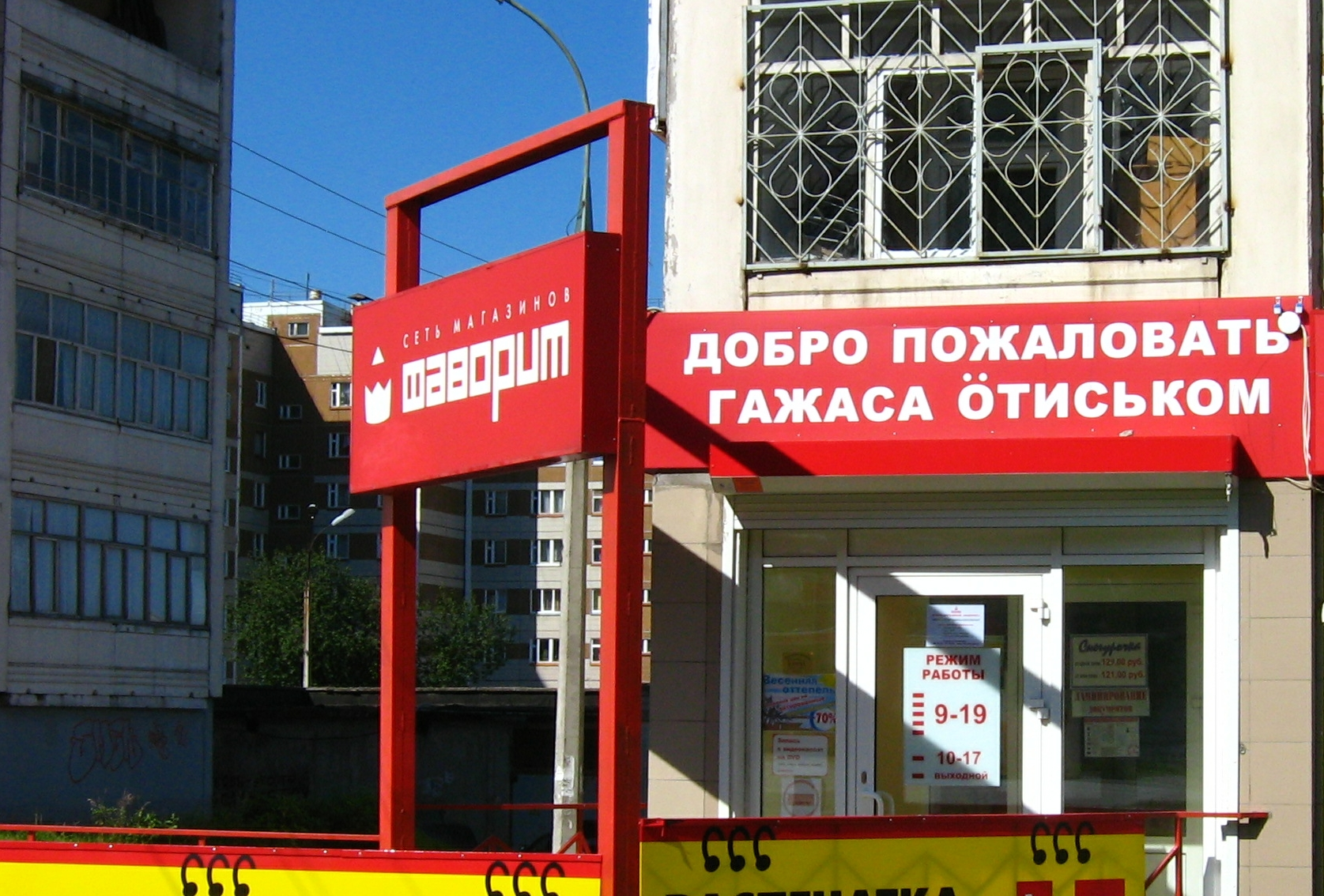 A sample of the Udmurt language words. Upper "Добро пожаловать" is in Russian, lower "Гажаса ӧтиськом" is in Udmurt. Both mean "Welcome!" This picture was taken in Izhevsk, the capital of Udmurtia